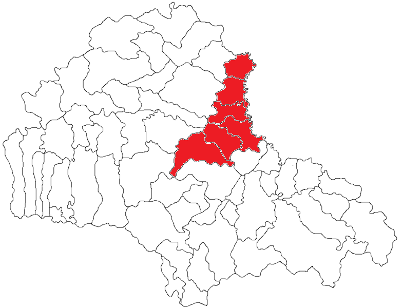 Alutus Maior region in Brasov County